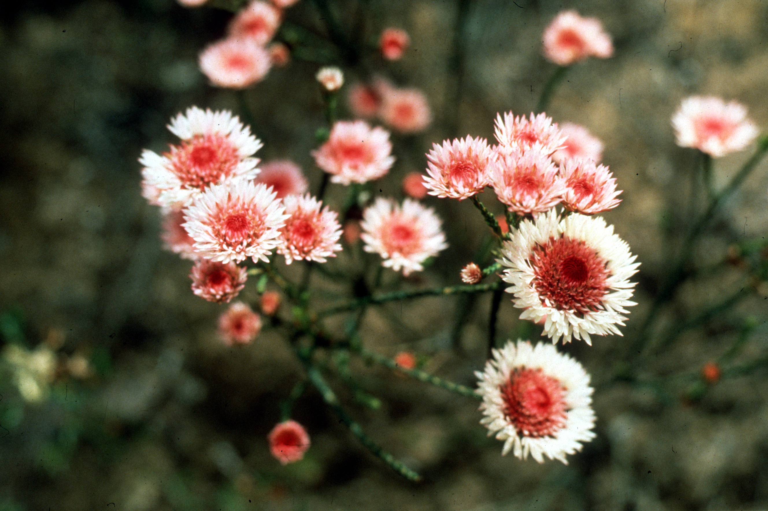 The Swamp Daisy is a remarkable plant found growing in low, sandy areas between Albany and the Fitzgerald River, WA. It is not a daisy but a myrtle. The white flowers are sterile and the red inner ones are hermaphrodite. It is unusual in having flowers parts in fours instead of fives. Actinodium is a monotypic genus, endemic to Western Australia.